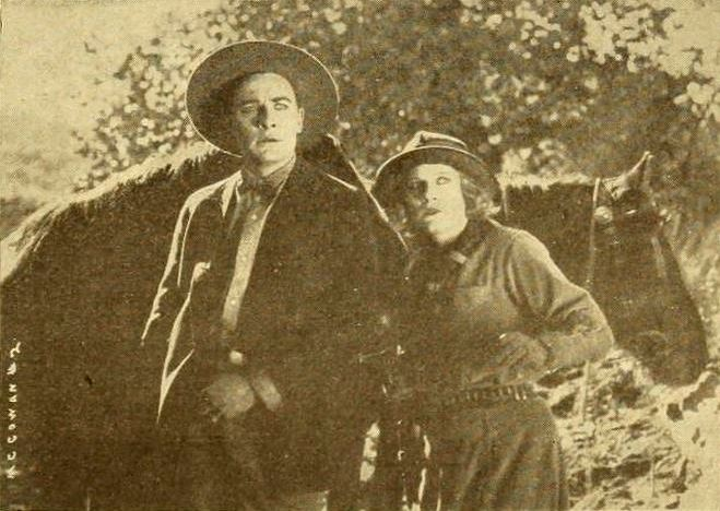 Still from the American film serial The Red Glove (1919) with Marie Walcamp and Patrick H. O'Malley, Jr., on page 877 of the February 15, 1919 Moving Picture World.